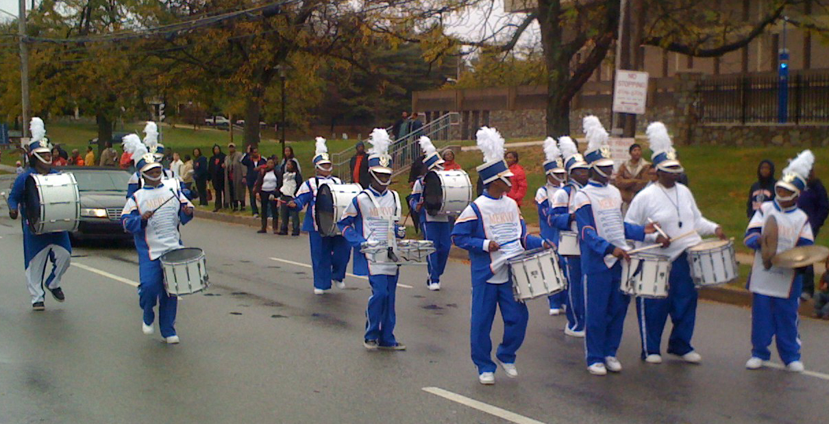 mergenthaler high school drum line